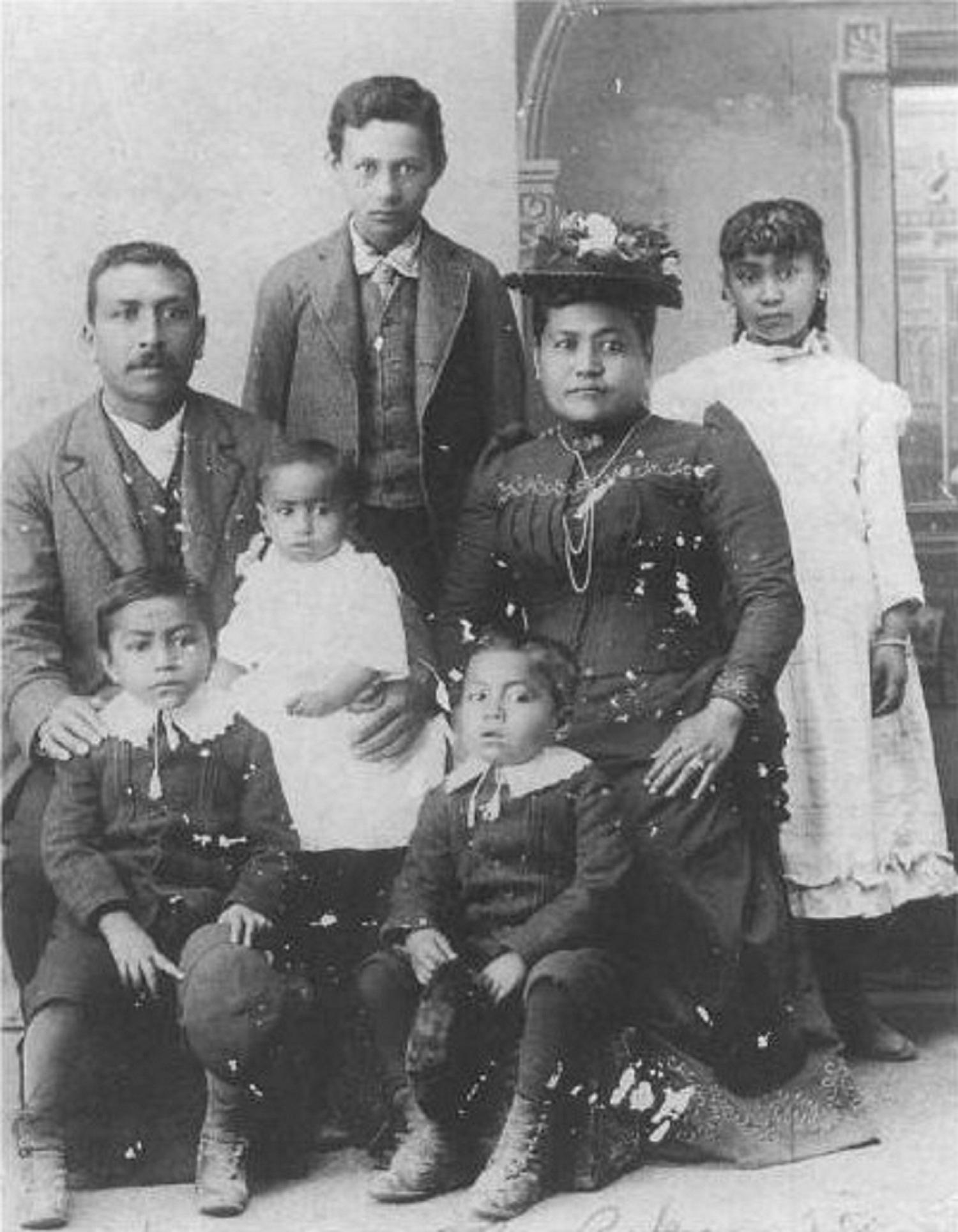 Delia Naukana, in a studio portrait with her first husband, George Napoleon Parker, and children taken during an 1890 visit to Tacoma from the Gulf Islands. According to family lore, Delia's husband, a recently arrived Hawaiian, was related to the family that owned the large Parker Ranch.